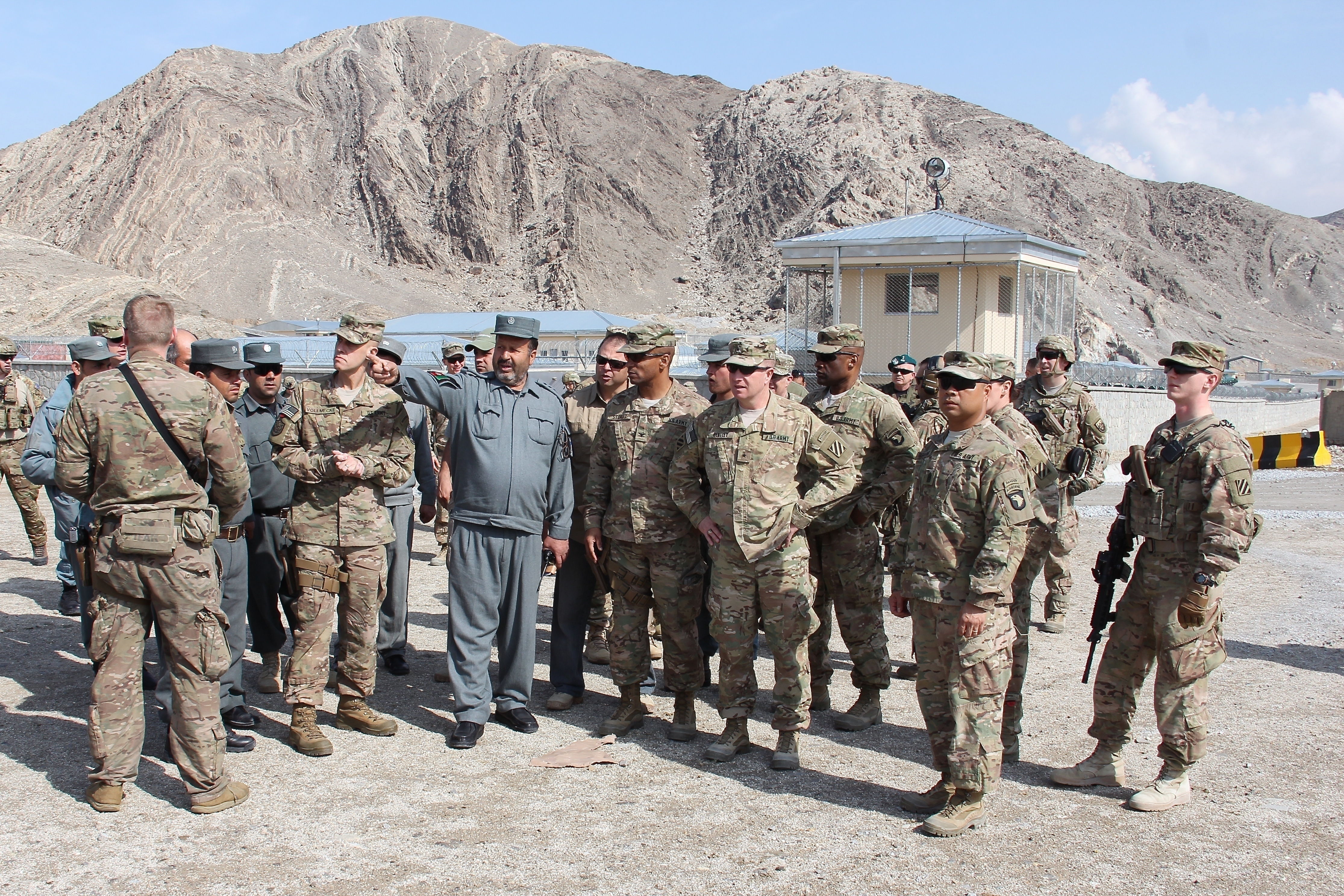 The commander of the Nangarhar police Regional Logistics Center discusses the method for receiving and processing damaged vehicles during an advising visit by leaders and advisers from Train, Advise, Assist Command - East, Resolute Support Mission and Combined Security Transition Command Feb. 17, 2015. (U.S. Army photo by Capt. Jarrod Morris, TAAC-E Public Affairs)